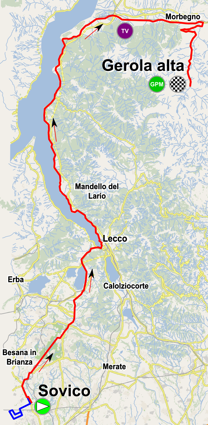 Map of stage 6 of Giro donne 2018.